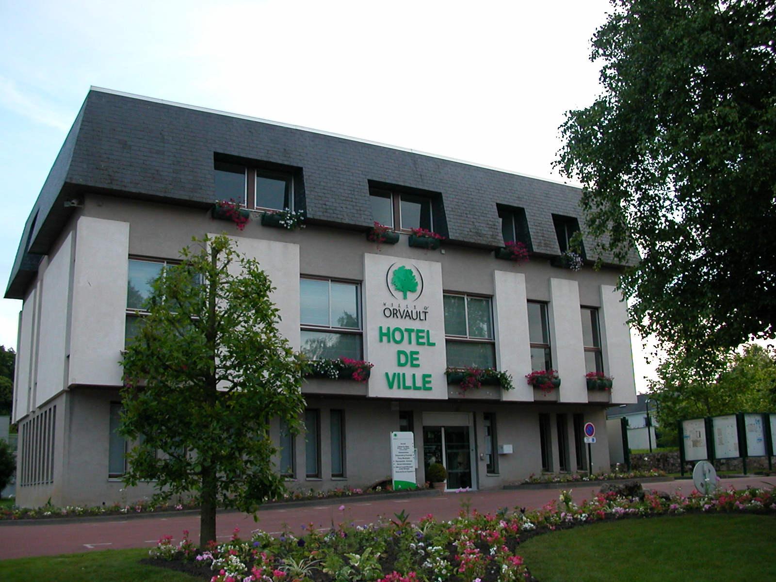 Town hall of Orvault (front)